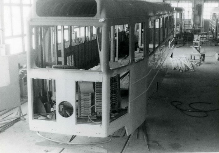 Production of MBO at Høka in Hønefoss, Norway.